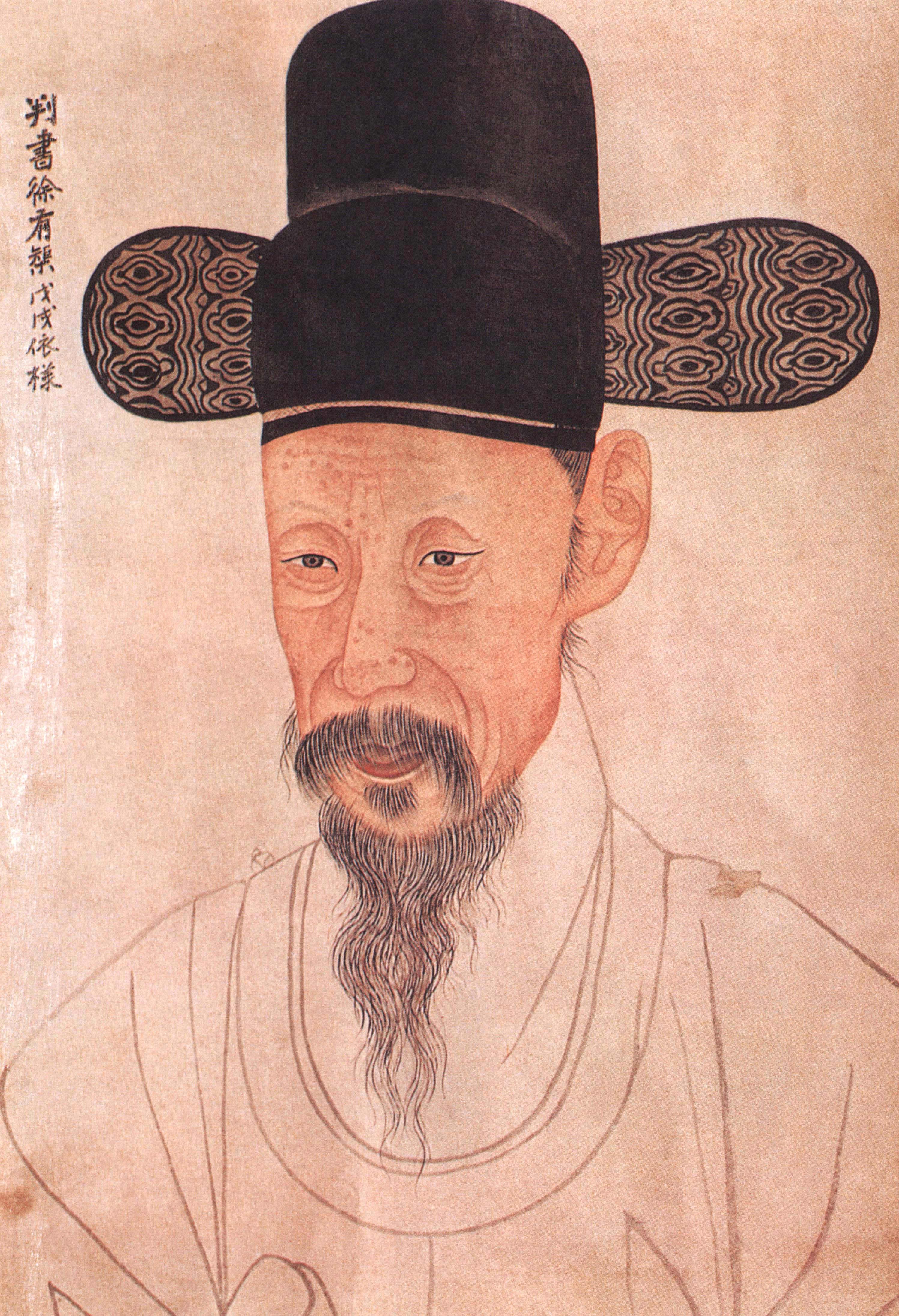 Portrait of Seo Yu-gu